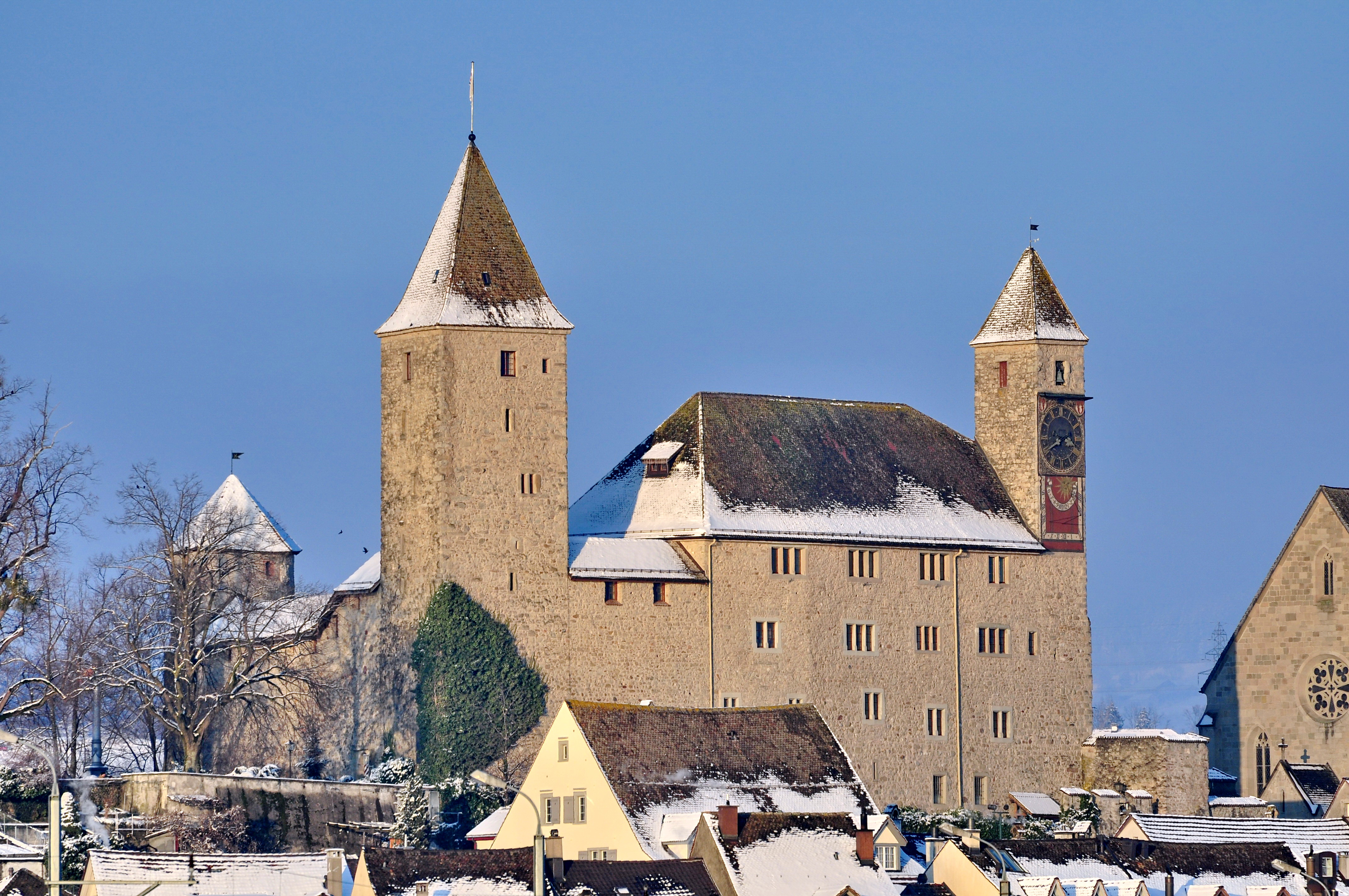 Schloss in Rapperswil (Switzerland) as seen from the wooden bridge crossing Obersee (upper Lake Zurich).